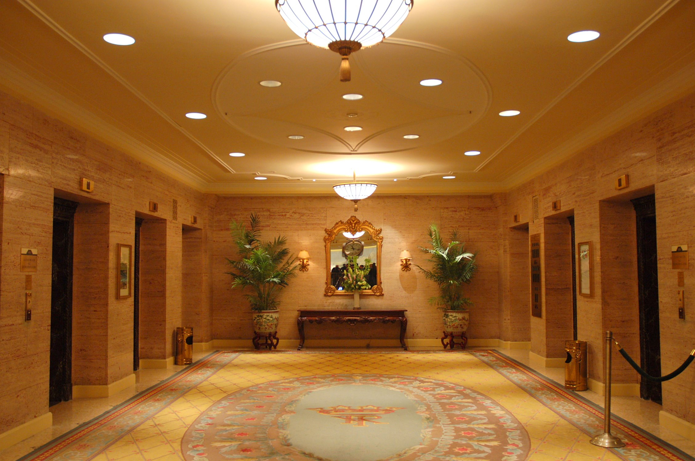 Elevator lobby -- The Fairmont Royal York Hotel Toronto Canada